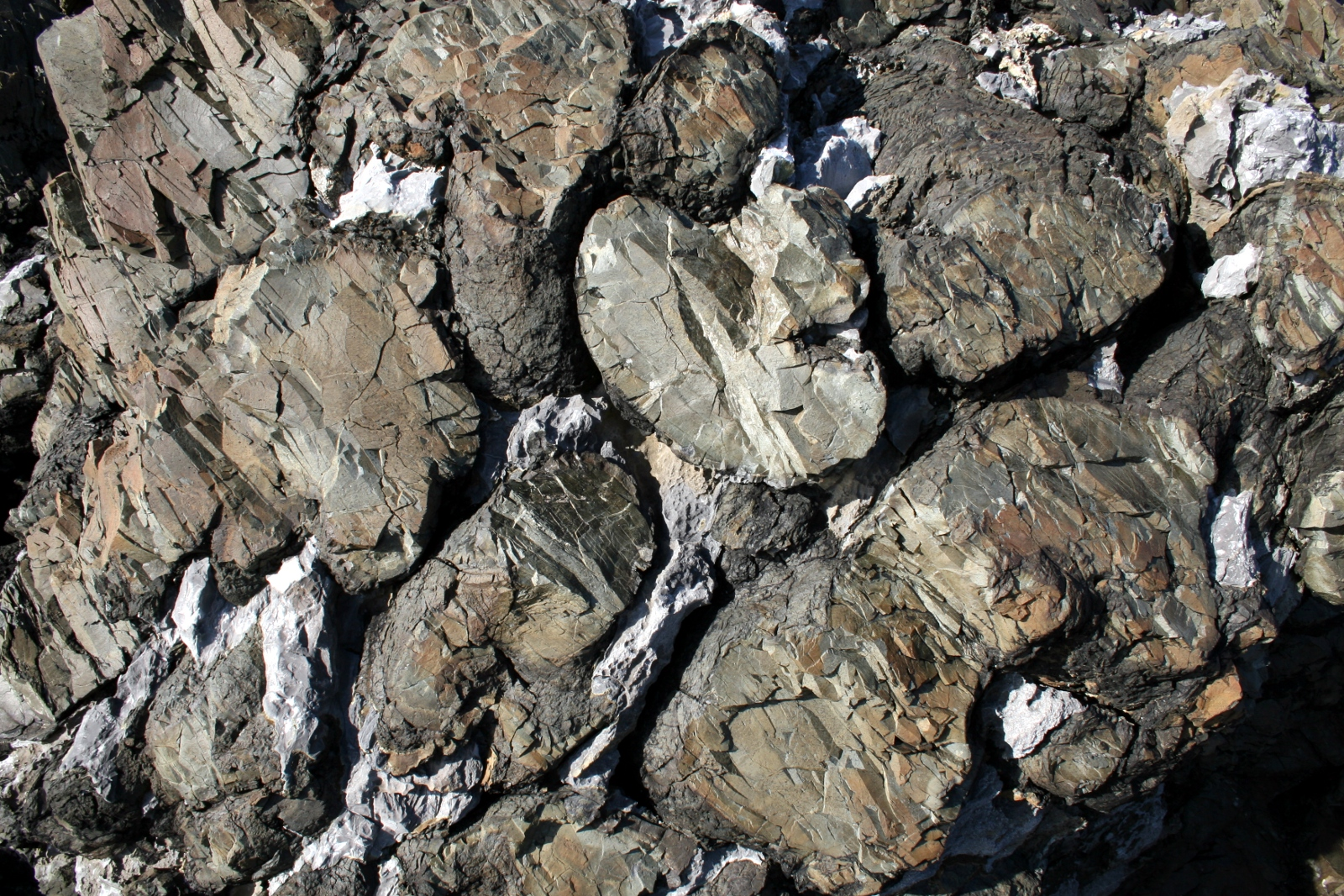 Basalt pillow lava of late Ordovician age at Crozon in Brittany, France.